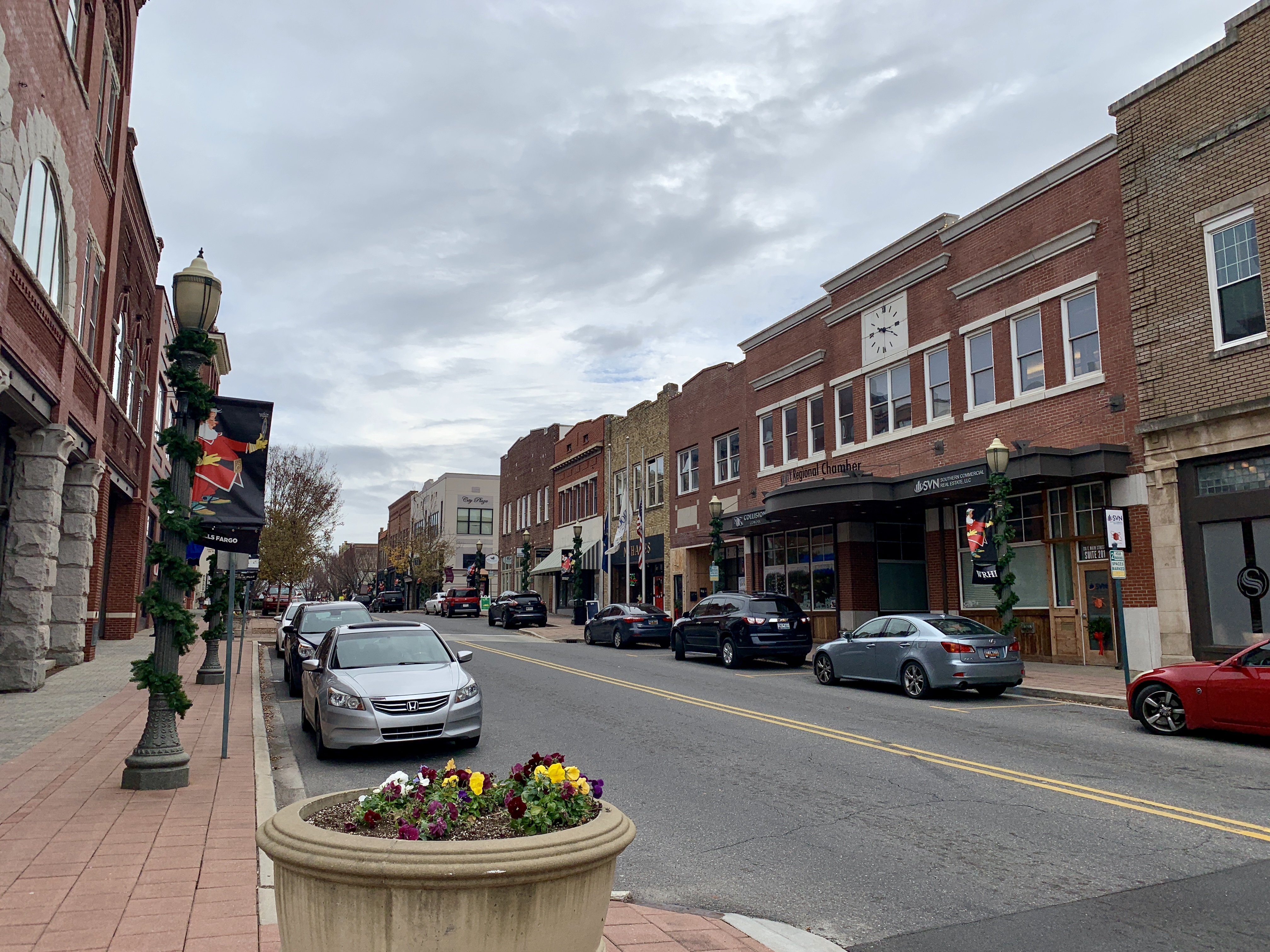 Main Street (Rock Hill, SC)